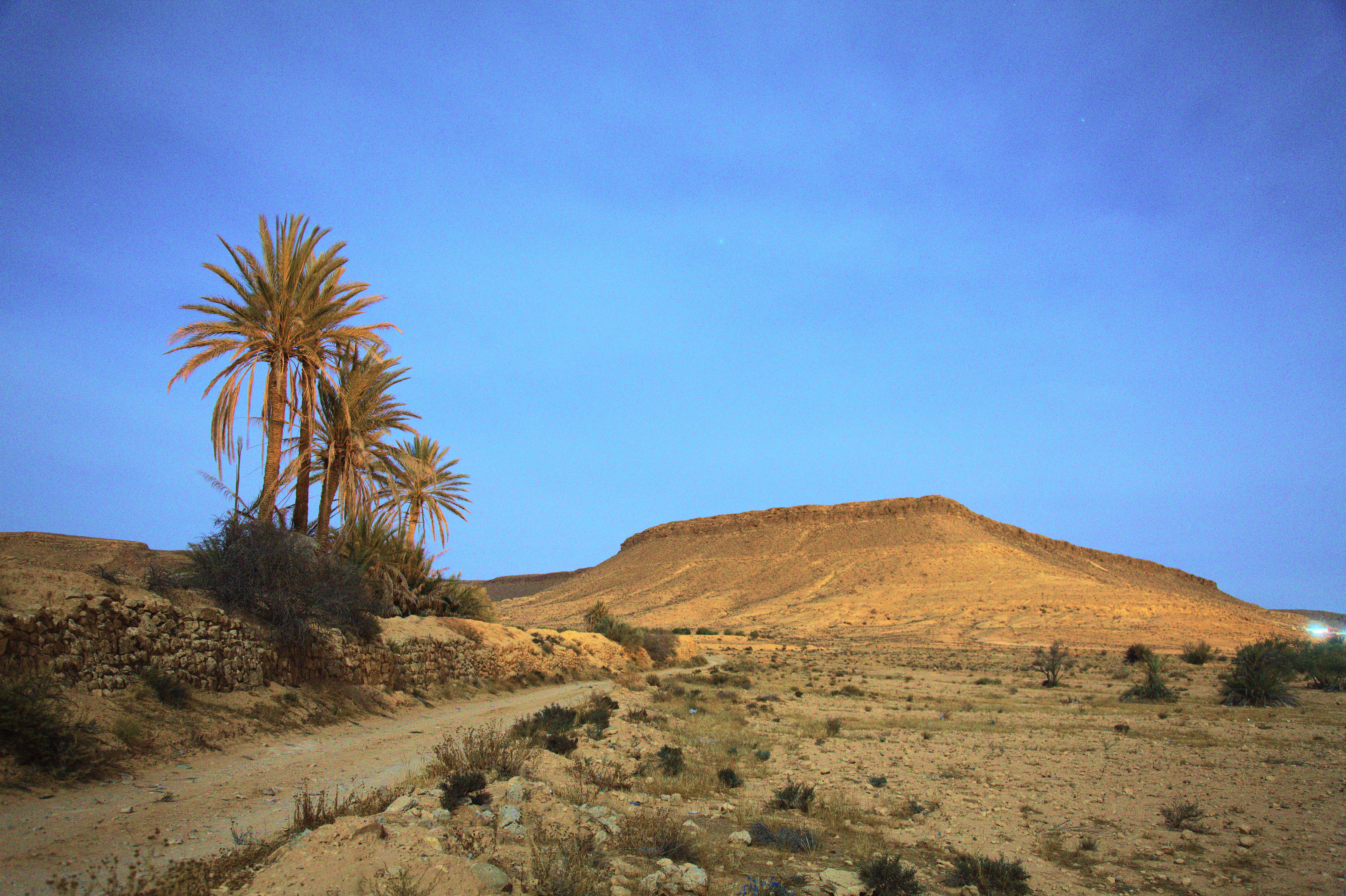 The landscape behind Sangho hotel in Tataouine in full moon. Quite heavily color corrected (it was pretty dark) with the aim of making the colors appear daylike. View towards west. The star in the center is Altair and the one to the right is Albireo.